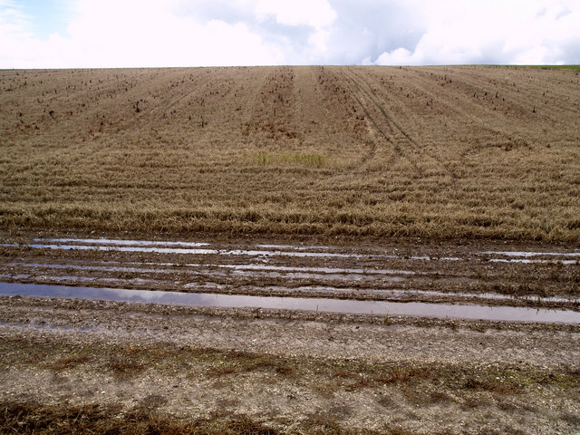 Fallow Field, Huggate, East Riding of Yorkshire, England.This field has been left with last year's stubble in it. The ground is very soggy (for chalky soil) due to the recent deluge in the area.